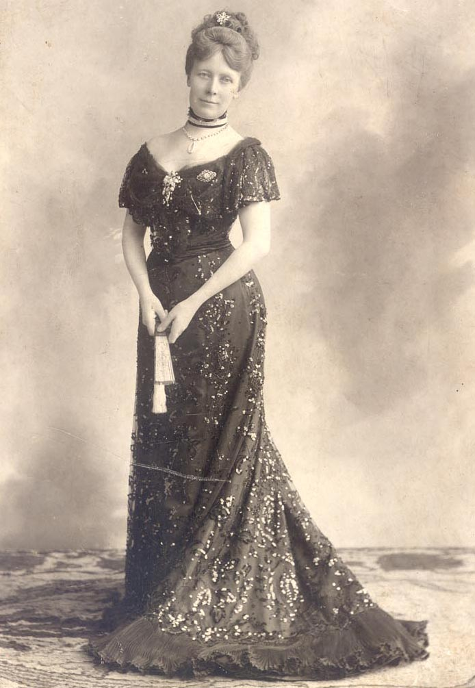 D. Isabel de Sousa Botelho Mourão e Vasconcelos